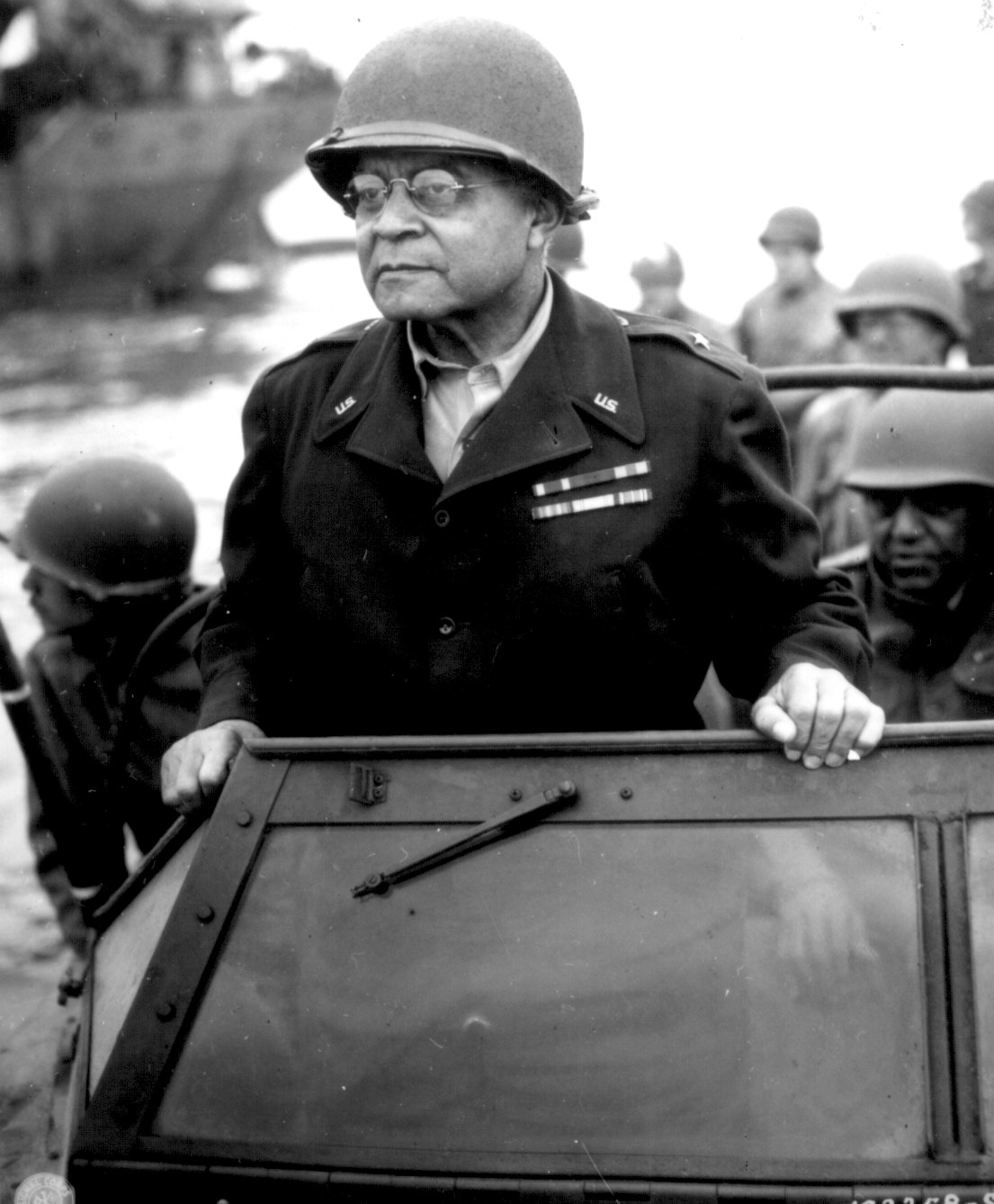 Brig. Gen. Benjamin O. Davis Sr. watches a Signal Corps crew erecting poles, somewhere in France. August 8, 1944 source